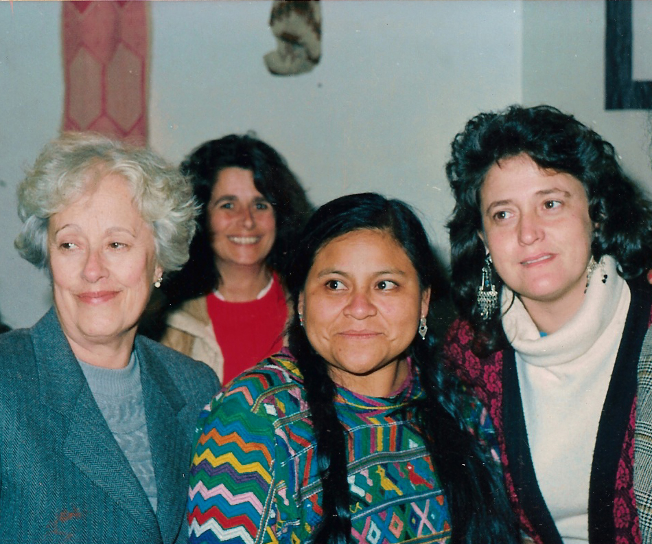 Human rights activists